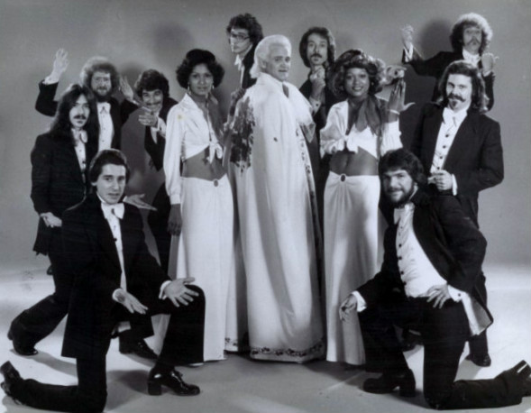 Publicity photo of Wayne Cochran (in center wearing white cape) with the C.C. Riders (male backup group) and the Sweet Delights (female backup group).